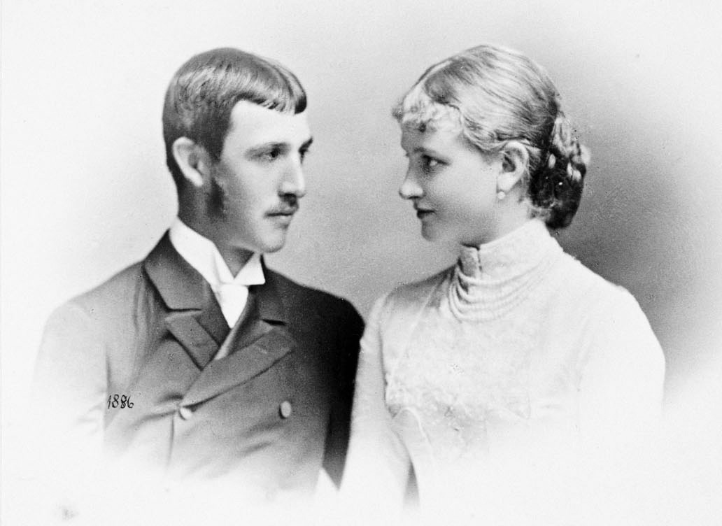 Archduke Otto of Austria and his bride, Princess Maria of Saxony